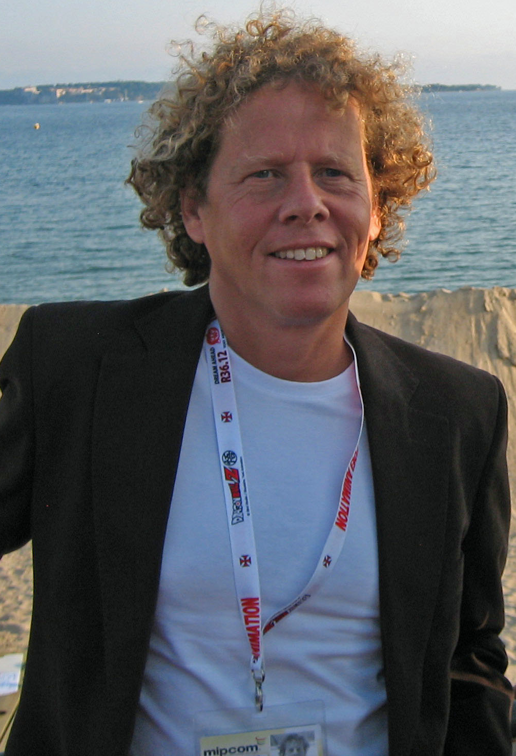 Dan Blazer, creative director BlazHoffski Productions B.V.